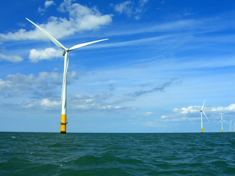 Vestas V90-3MW wind turbines of the Kentish Flats Offshore Wind Farm, Thames Estuary.